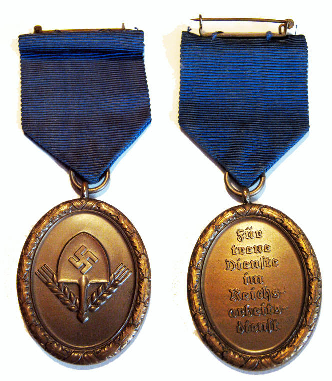 GERMAN STATE LABOUR SERVICE AWARD - BRONZE (4 year service)